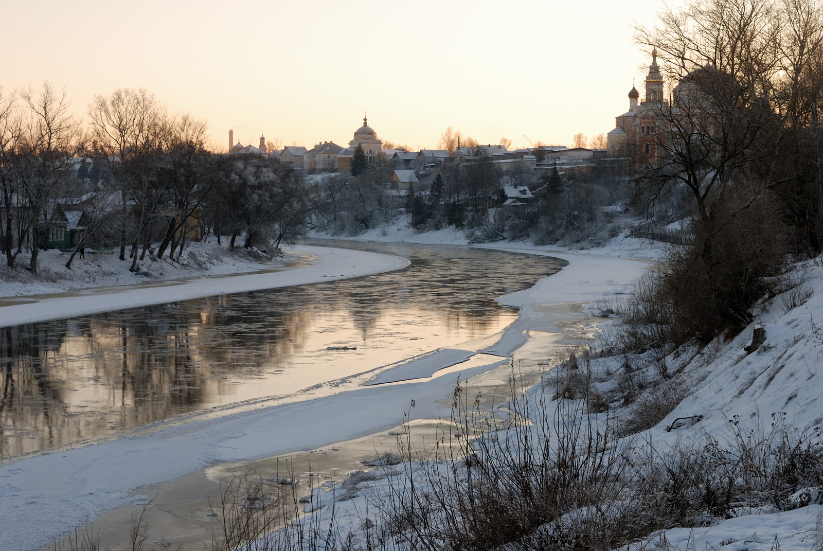 Tvertsa River in Torzhok